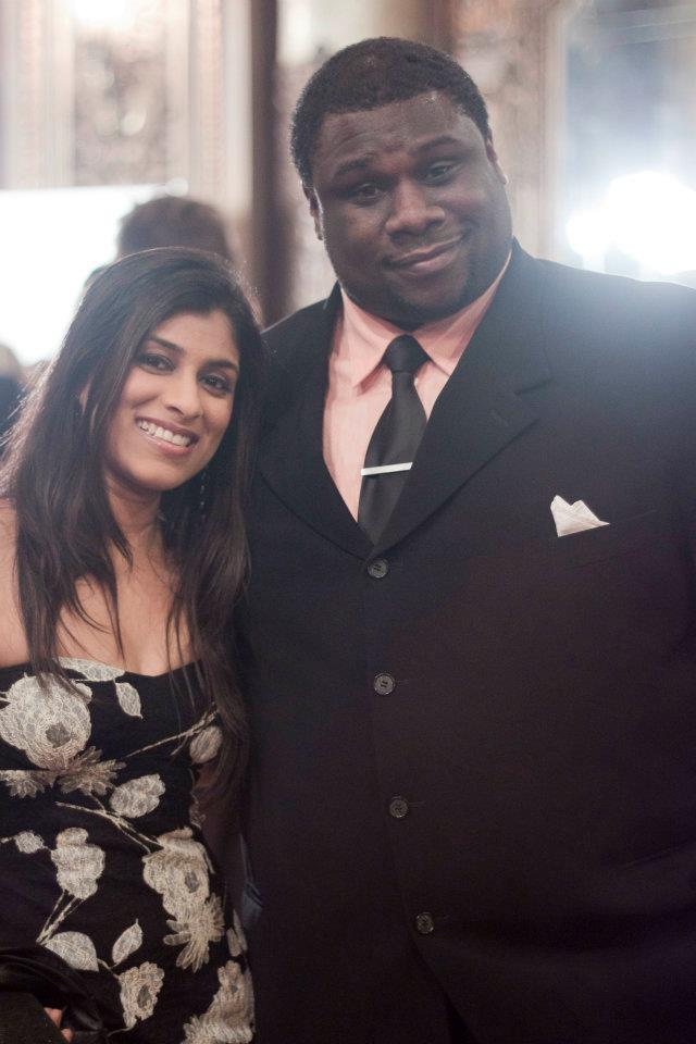 Actor Shaheed Woods and actress Dipti Mehta at the Golden Door Film Festival of Jersey City 2011 awards ceremony